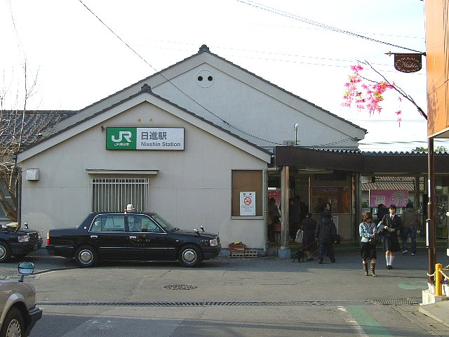 The old station building of Nisshin Station, Saitama